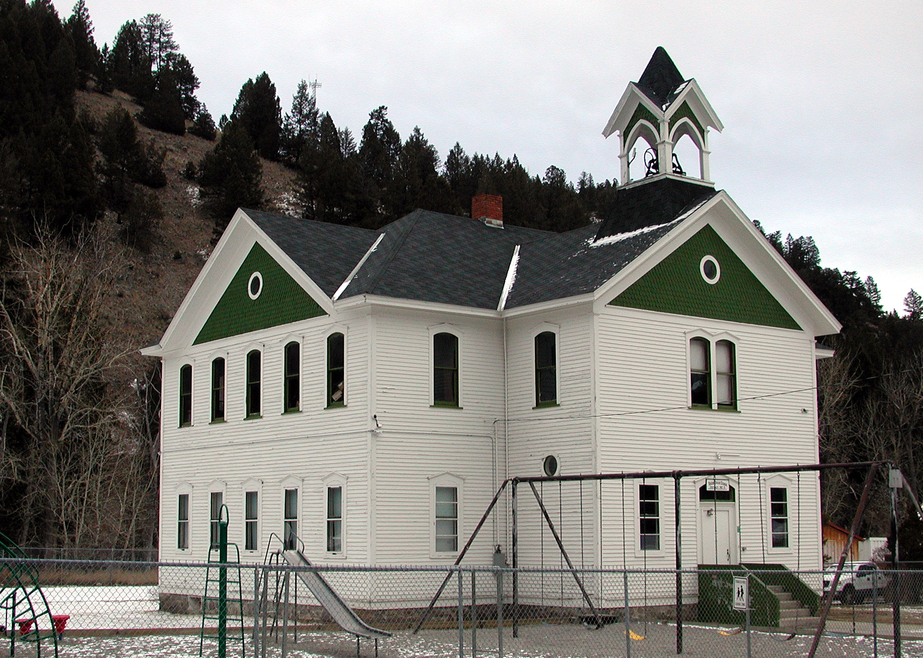 Basin Grade School on Quartz Avenue in Basin, Montana. Constructed in about 1895.